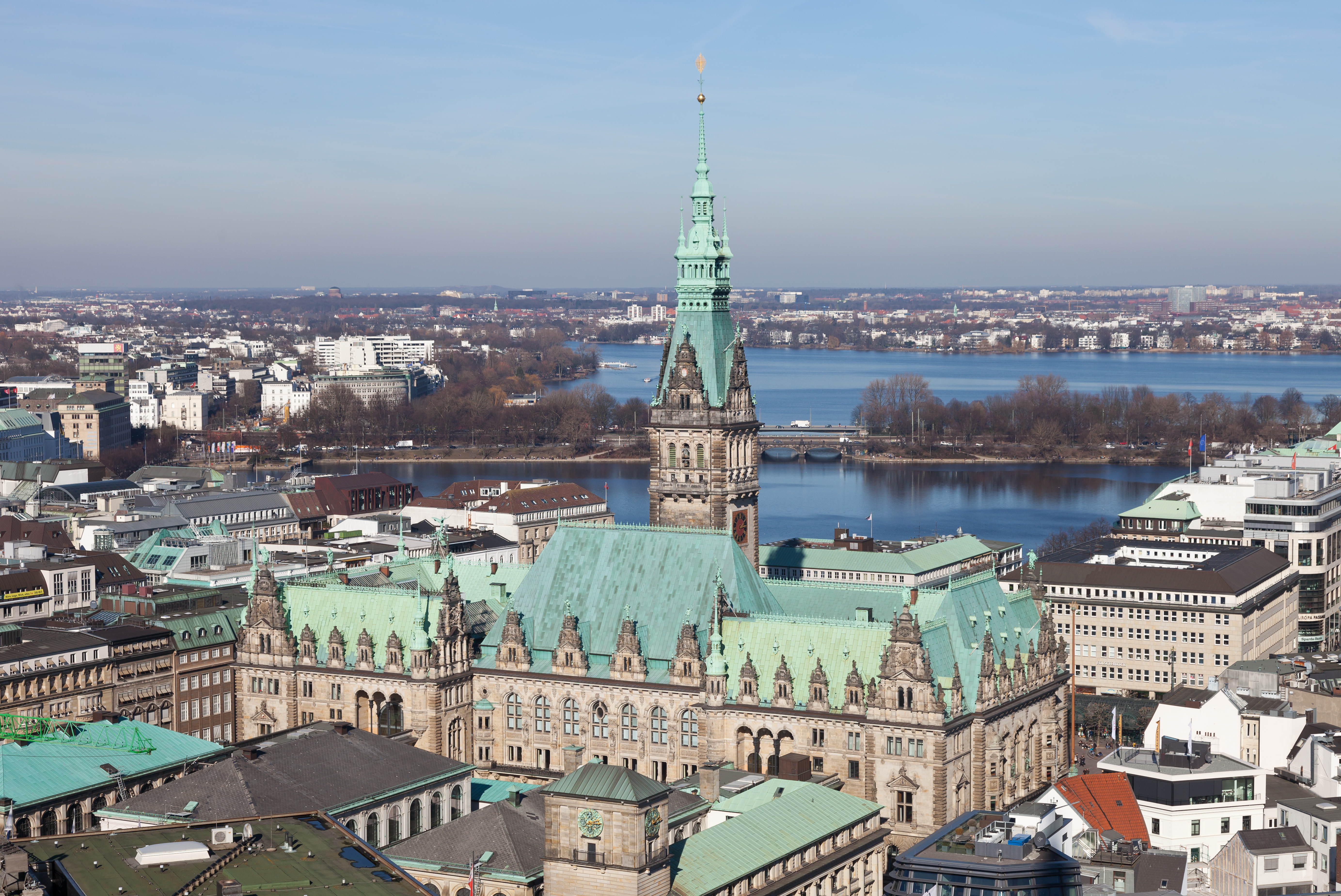 cityscape of Hamburg, Germany, Hamburg Rathaus This is a photograph of an architectural monument.